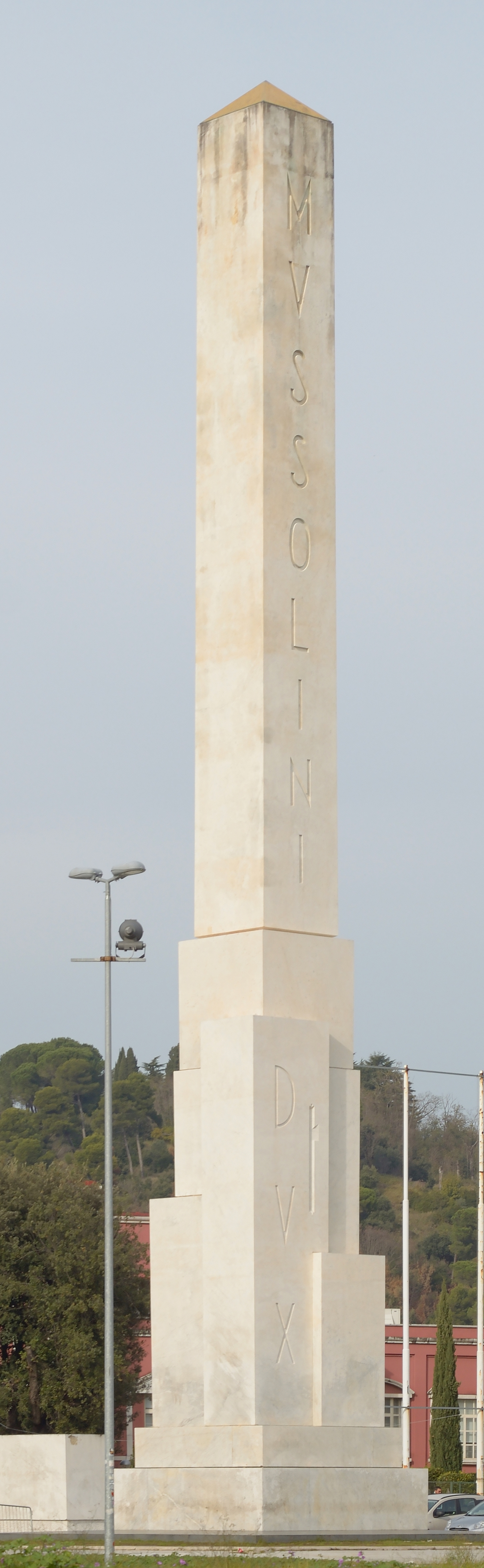 Obelisk of the Foro Italico